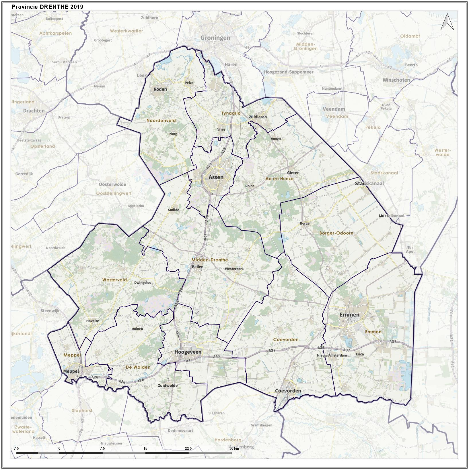 Overview map of the province, including municipal borders, largest places and major infrastructure.